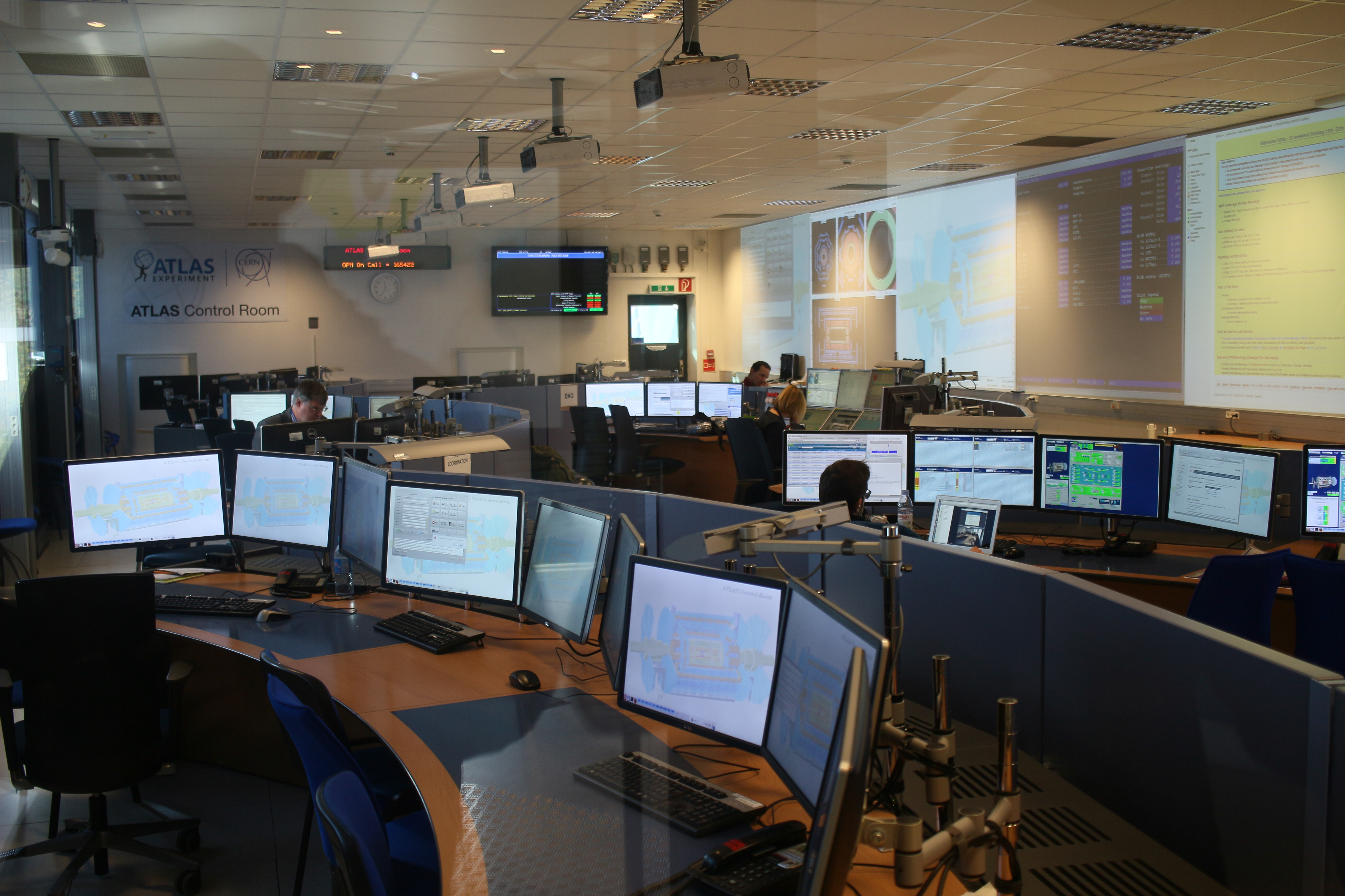 CERN 2016, ATLAS experiment